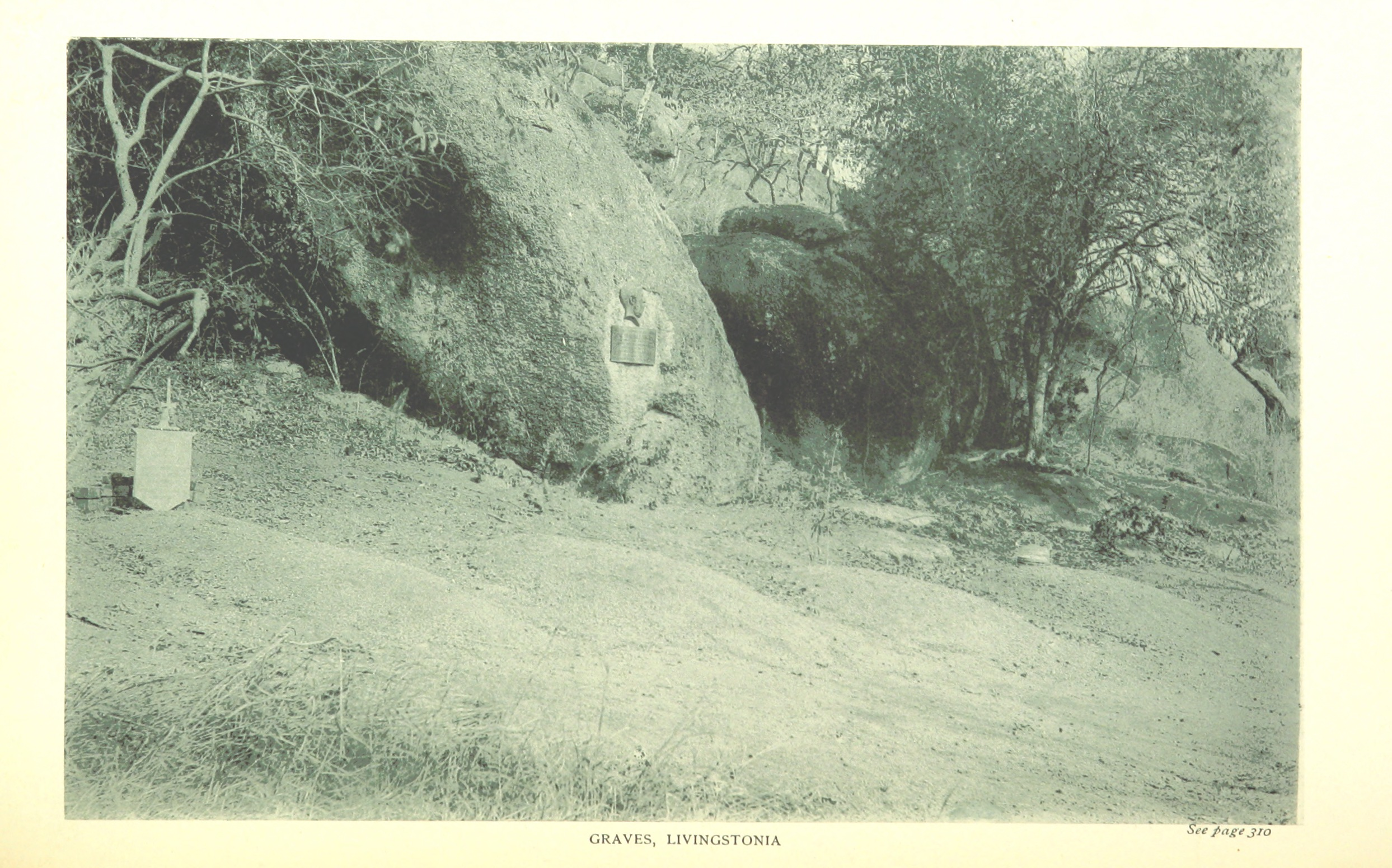 Image taken from: Title: Graves at Livingstonia - "Reality versus Romance in South Central Africa. An account of a journey across the Continent ... With ... illustrations, etc" Author: JOHNSTON, James - M.D., of Brown's Town, Jamaica Shelfmark: "British Library HMNTS 10097.dd.27." Page: 387 Place of Publishing: London Date of Publishing: 1893 Publisher: Hodder & Stoughton Issuance: monographic Identifier: 001888839